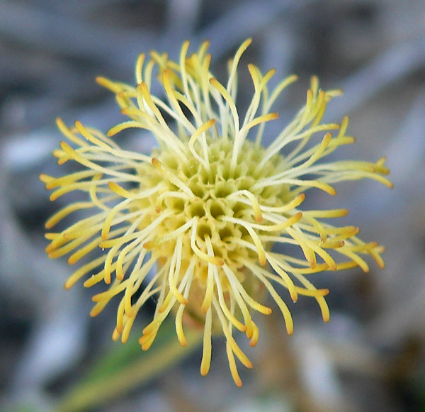 Brickellia atractyloides (probably var. atractyloides) in the State Line Hills, Spring Mountains, just west of Primm, Nevada (elev. about 800 m)